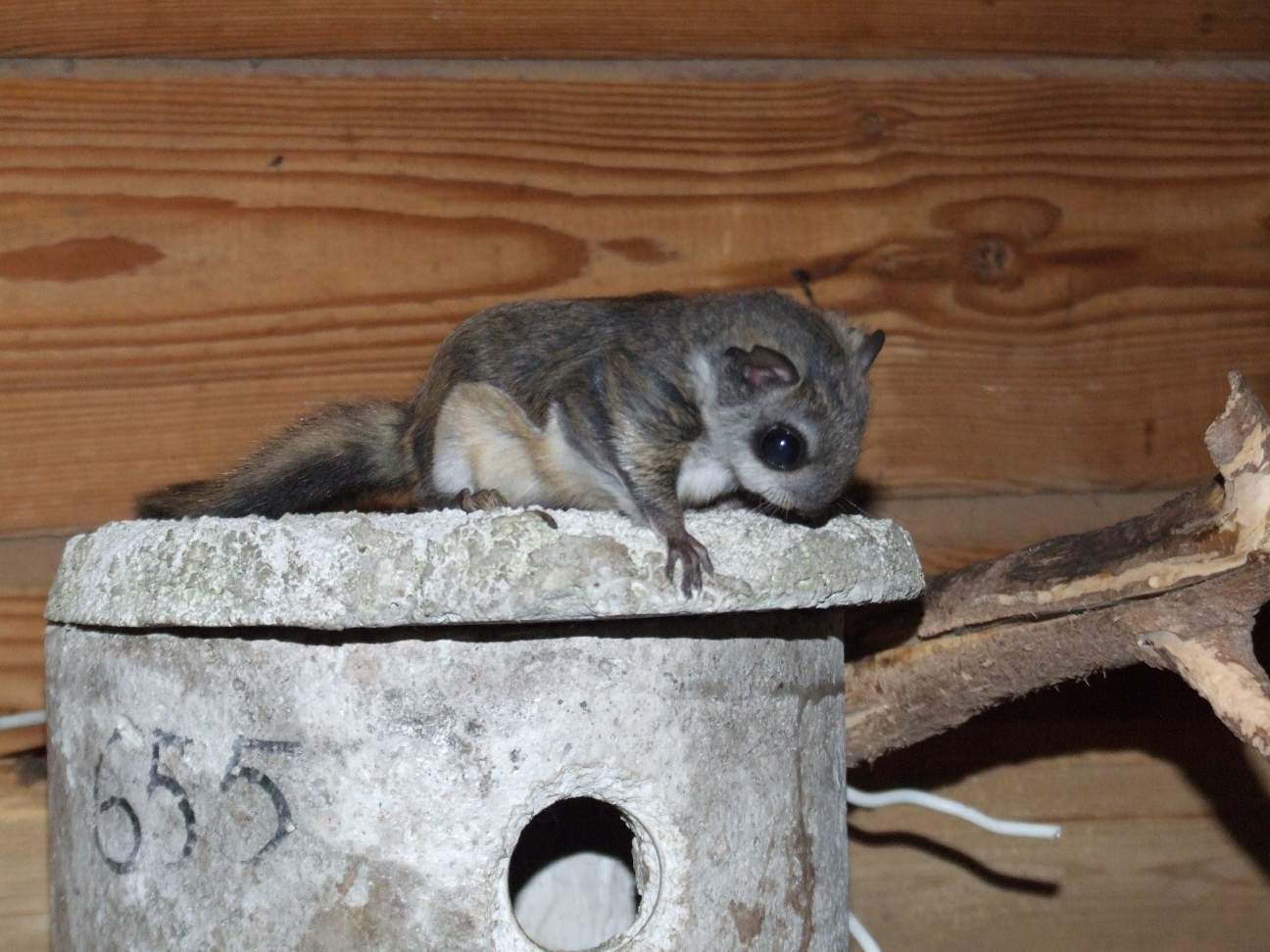 Pteromys volans on Zvenigorod Biological Station